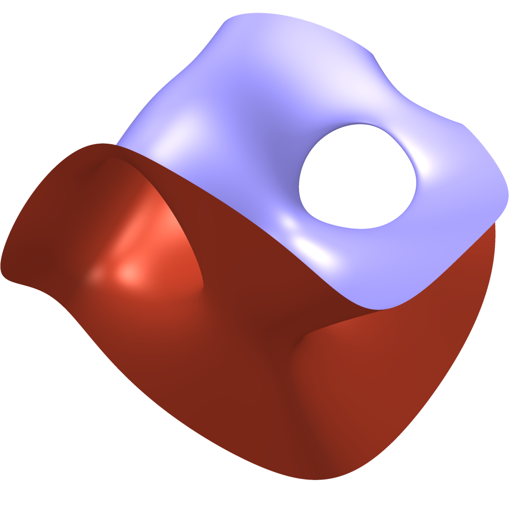 This is a visualization of a slice of the singular quintic threefold whose resolution is the Consani-Scholten threefold. It was created using Surfer .